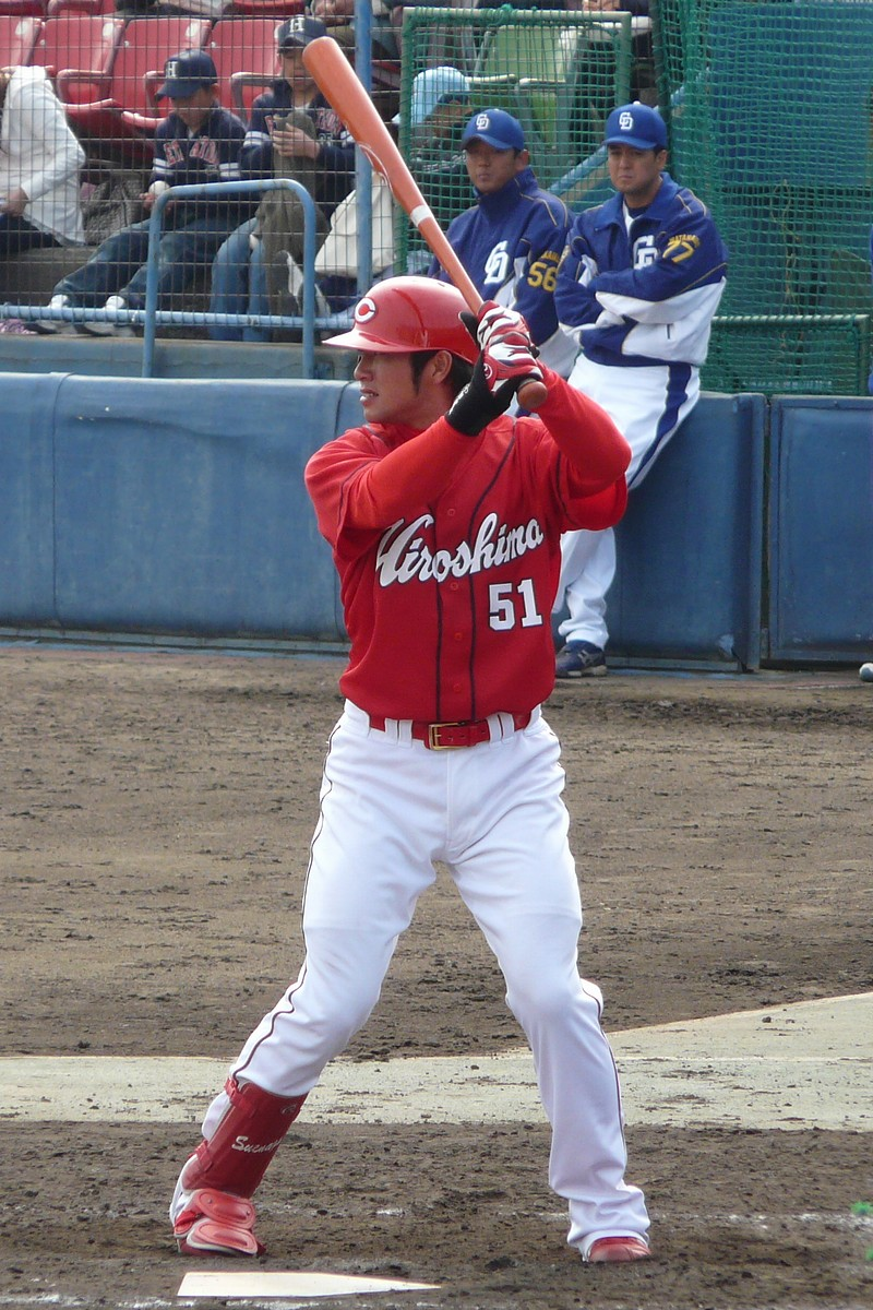 Masafumi-Suenaga